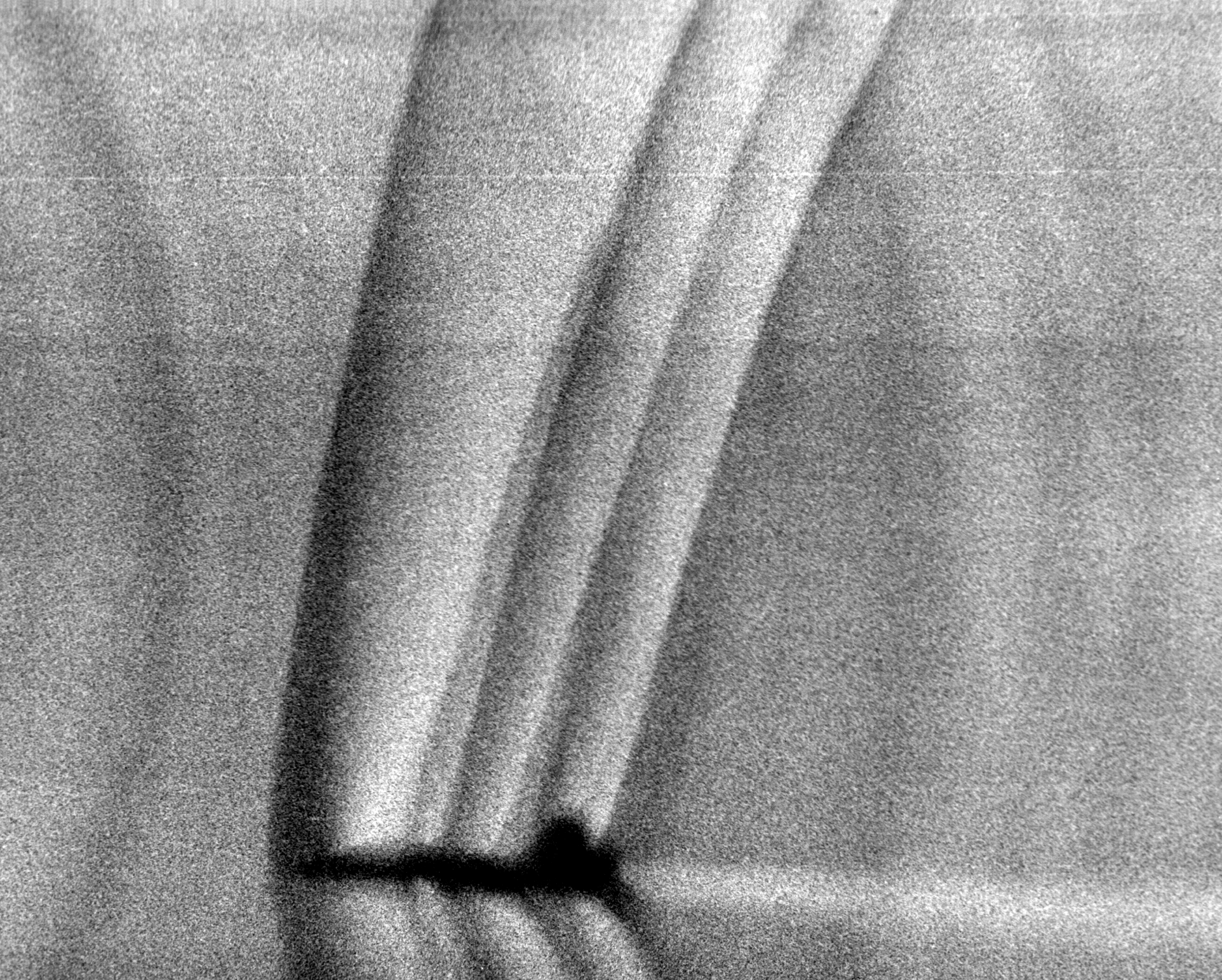 Schlieren photography (from the German word for "streaks") allows the visualization of density changes, and therefore shock waves, in fluid flow. Schlieren techniques have been used for decades in laboratory wind tunnels to visualize supersonic flow about model aircraft, but not full scale aircraft until the 1990s. Dr. Leonard Weinstein of NASA Langley Research Center developed the first Schlieren camera, which he calls SAF (Schlieren for Aircraft in Flight), that can photograph the shock waves of a full-sized aircraft in flight. He successfully took a picture which clearly shows the shock waves about a T-38 Talon aircraft on December 13, 1993 at Wallops Island. The camera was then brought to the NASA Dryden Flight Research Center because of the high number of supersonic flights there.